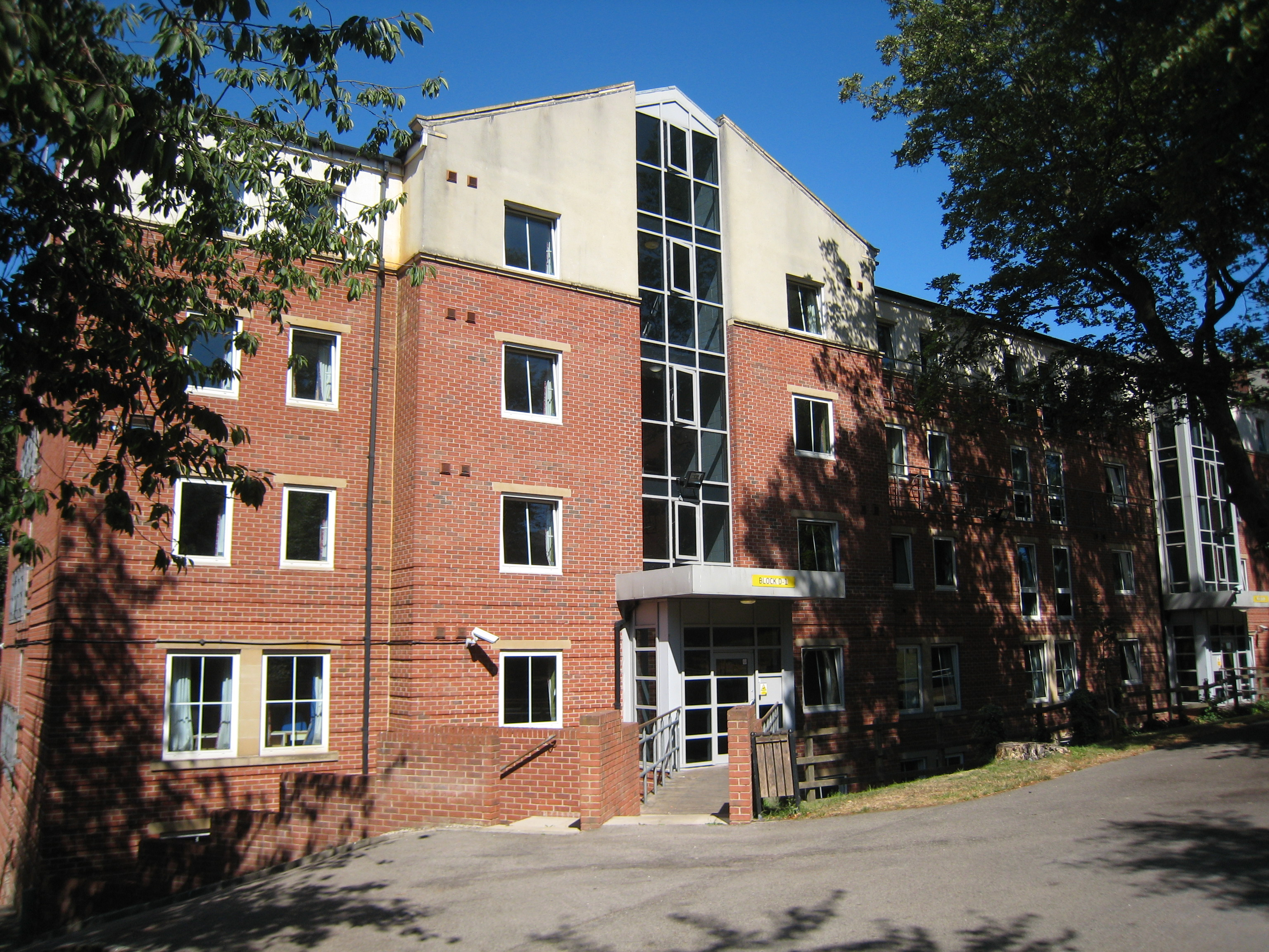 James Baillie Park, North Hill Road, Headingley, Leeds S6 2ED. University of Leeds student accommodation. Blocks of flats. Block 1.